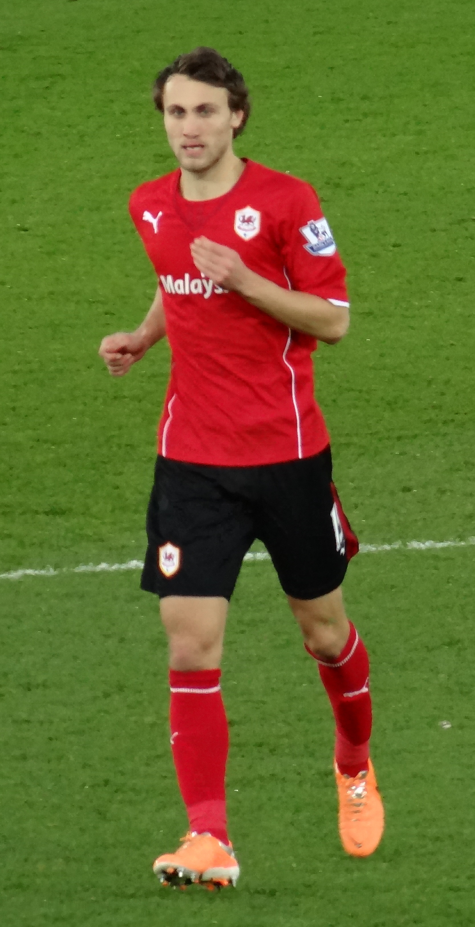 Magnus Wolff Eikrem as a Cardiff City player.